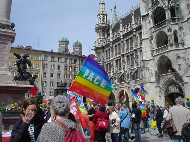 A peace march came to the Rathaus in Marienplatz in München